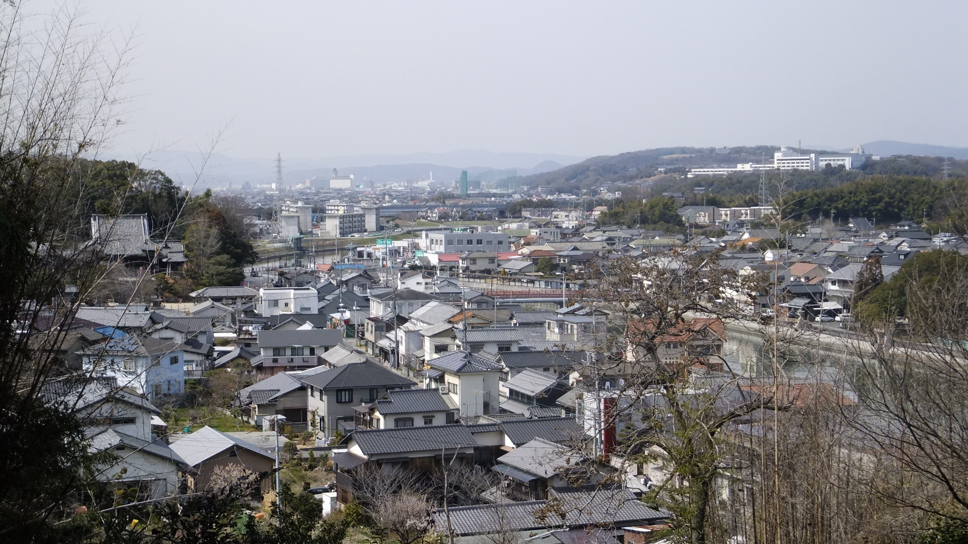 Town of Fujito seen from Inari-yama hill